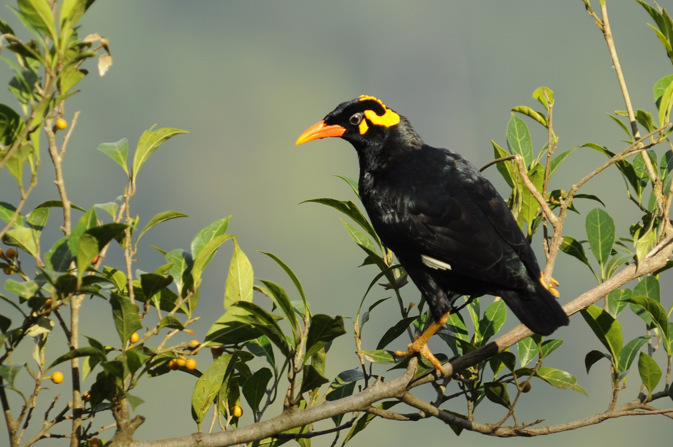 Southern Hill Myna in the Anamalai hills, India